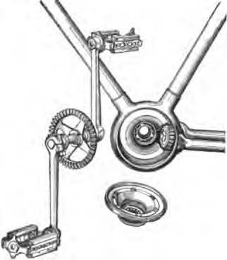 The Sterling bevel-geared Chainless Crank Bracket (1898)